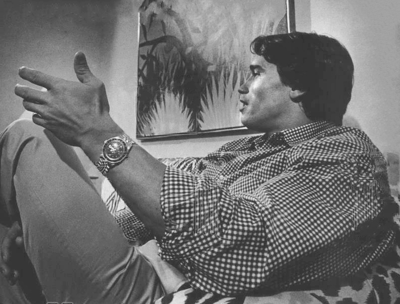 1971 Press Photo World famous body builder, Arnold Schwarzennegger, in Milwaukee